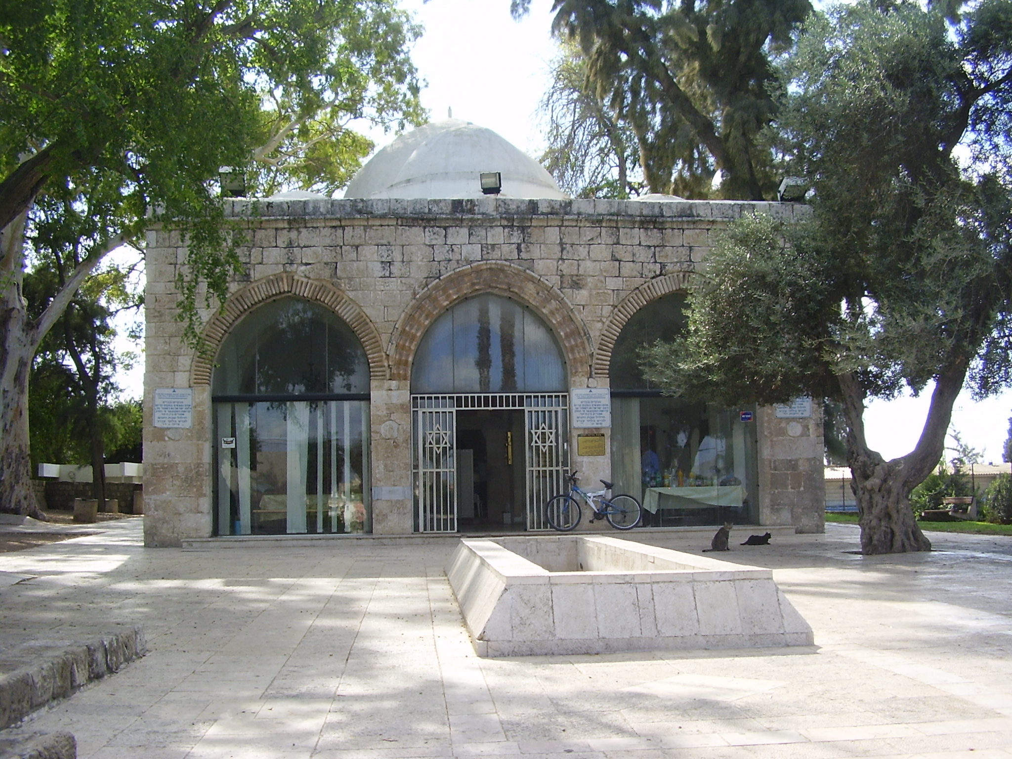 rabbi gamliel tomb in yavneh